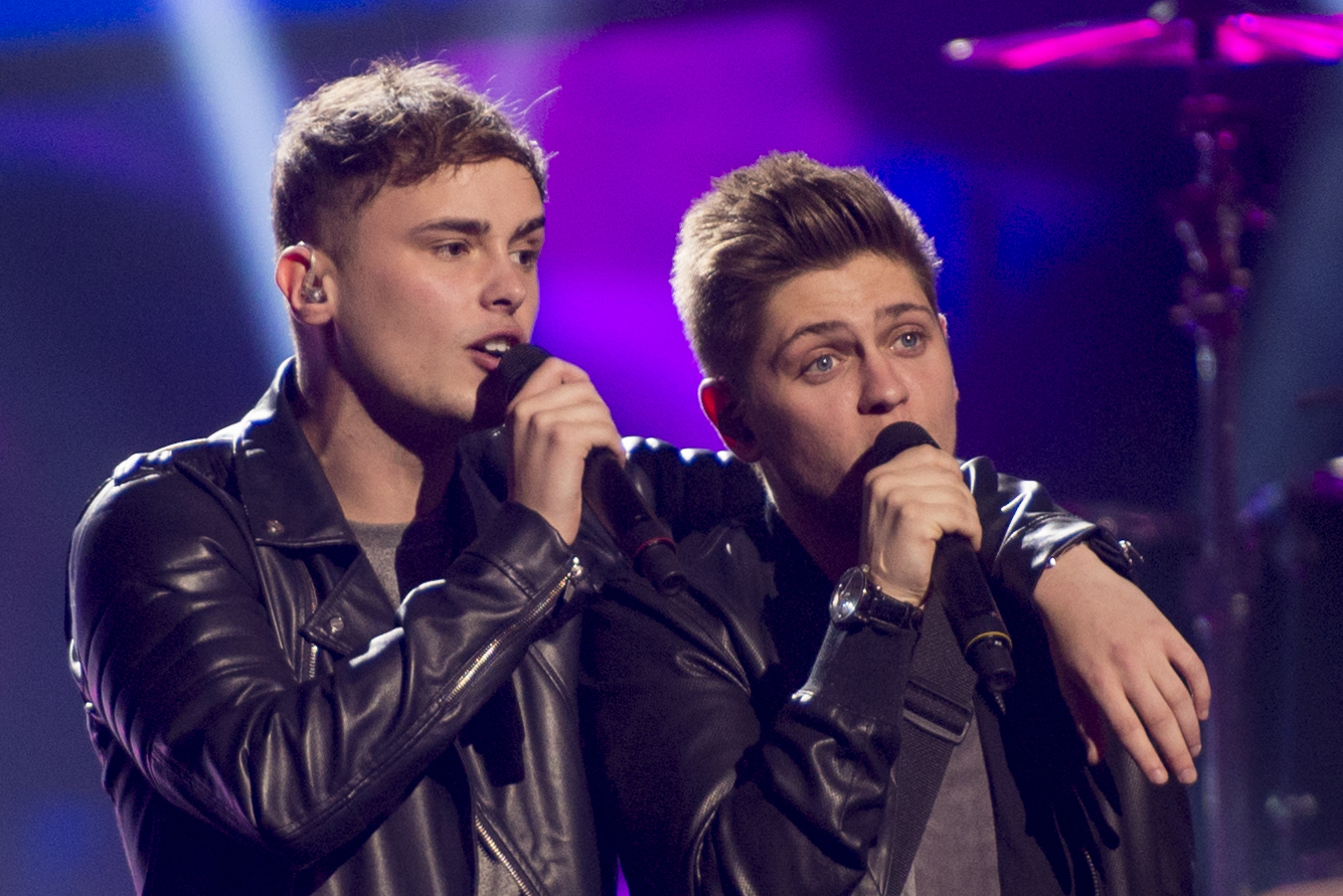 Joe & Jake representing United Kingdom with the song "You're Not Alone" during a rehearsal for "the Big Five" in the Eurovision Song Contest 2016 in Stockholm. (Help translate this text)